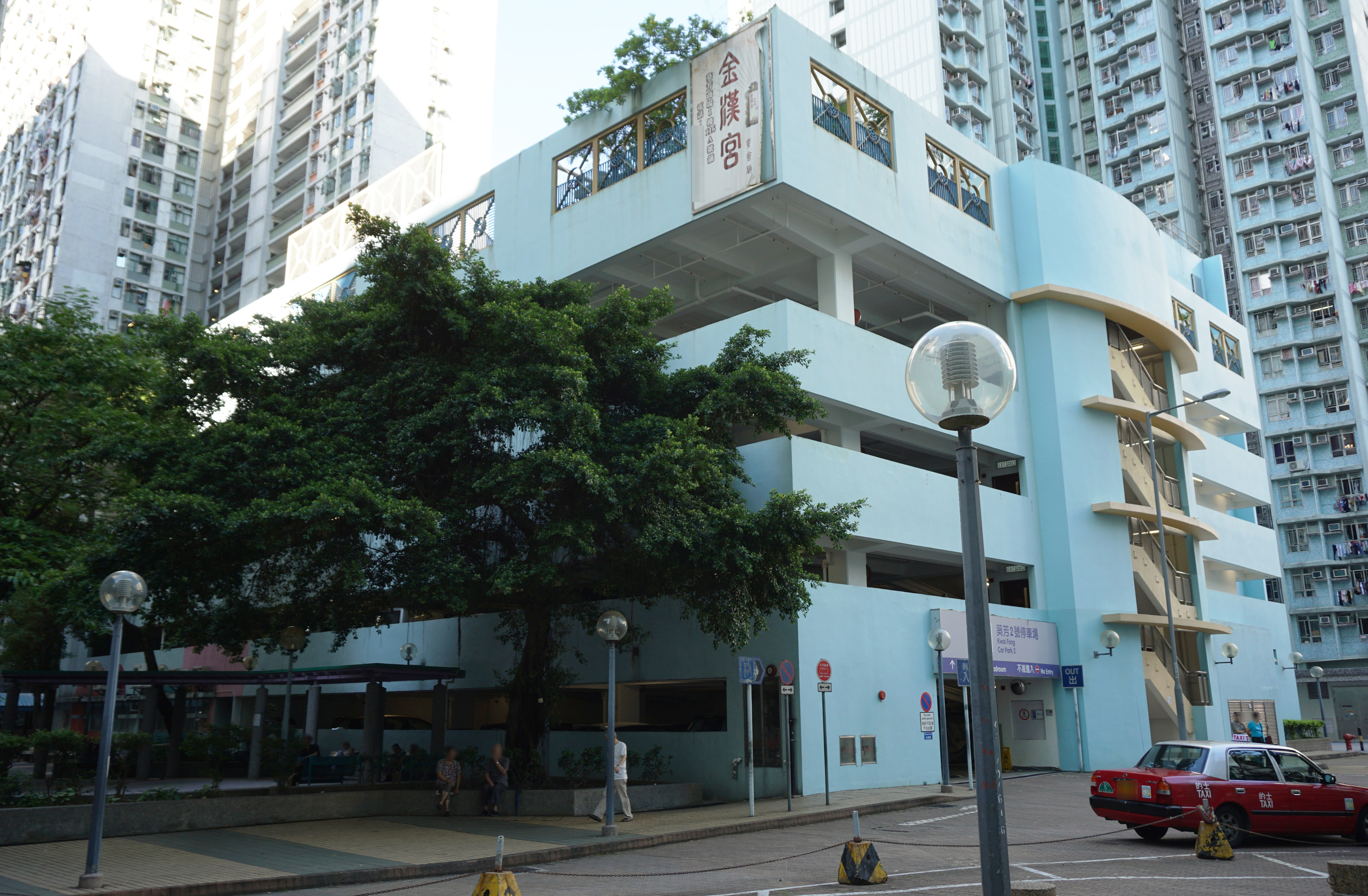 Kwai Fong Estate in Kwai Chung, Hong Kong.